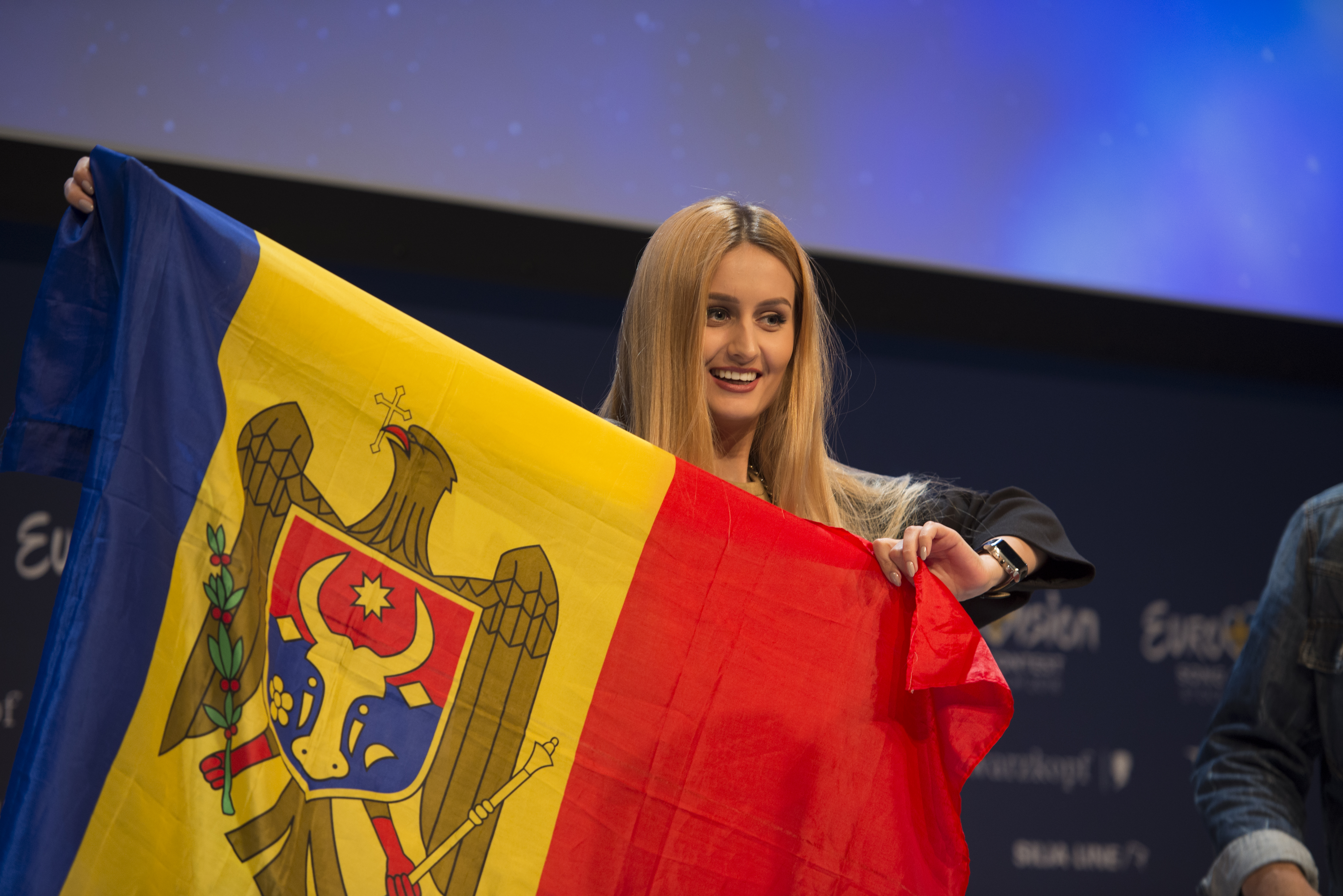 Lidia Isac at a Meet & Greet during the Eurovision Song Contest 2016 Stockholm. (Help translate this text)